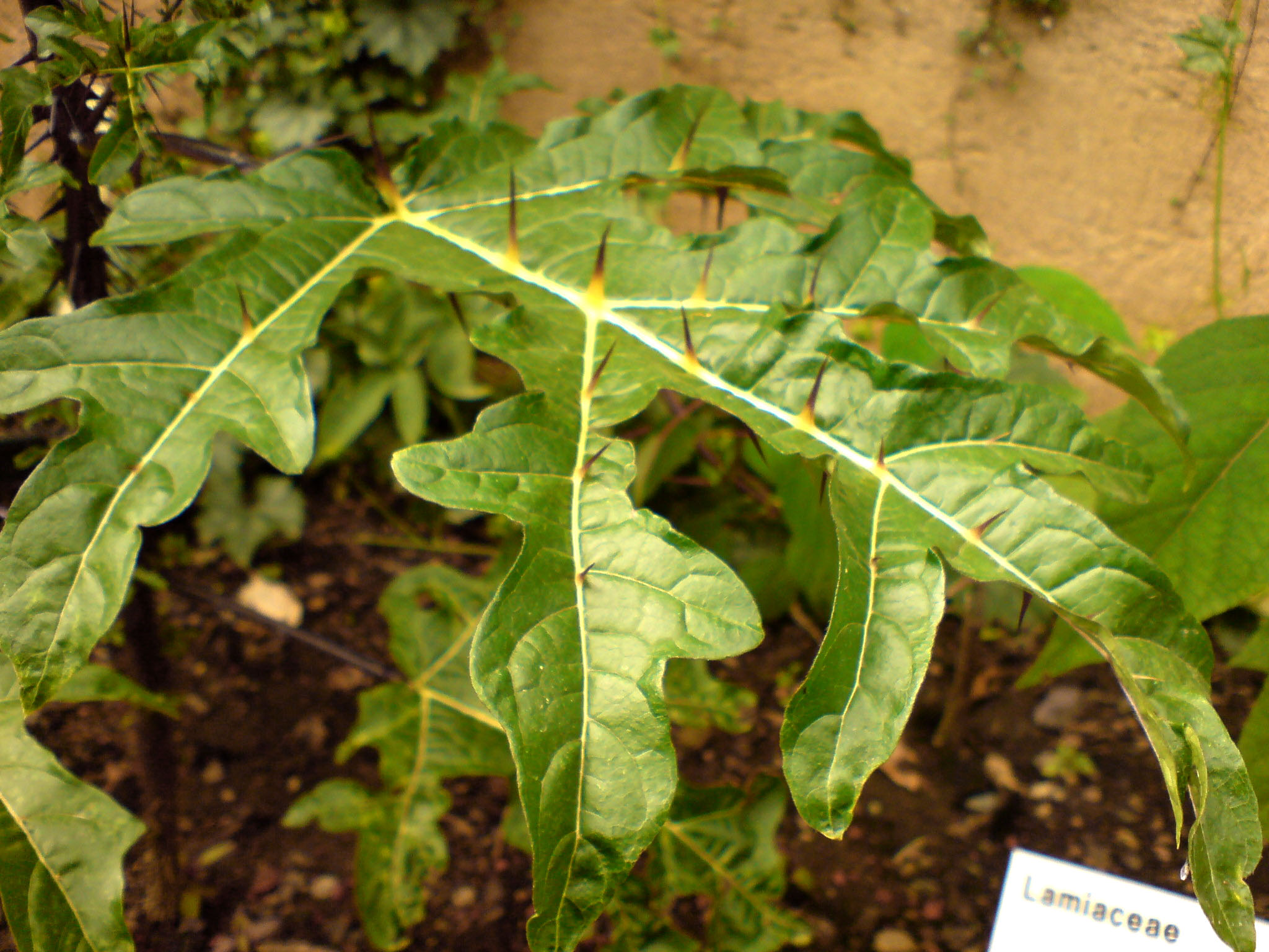 Solanum atropurpureum - Botanical Garden Göttingen